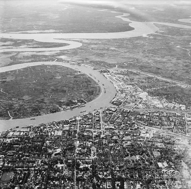 Quận 1 (phía gần trong ảnh), quận 4, 7 (phía xa trong ảnh) và quận Thủ Thiêm (nay là quận 2) đến năm 1954, khi Pháp rút vẫn ngập trong đầm lầy